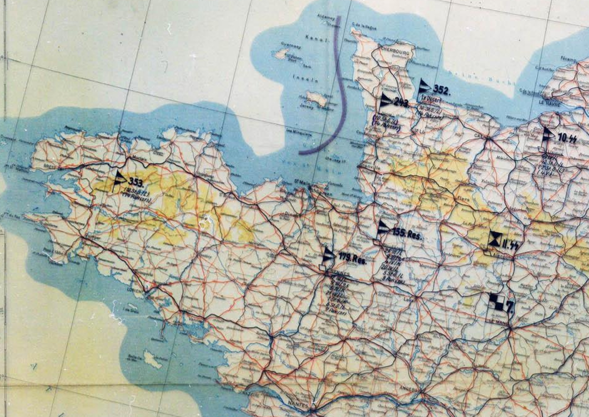 A part of a map of France printed by the Wehrmacht